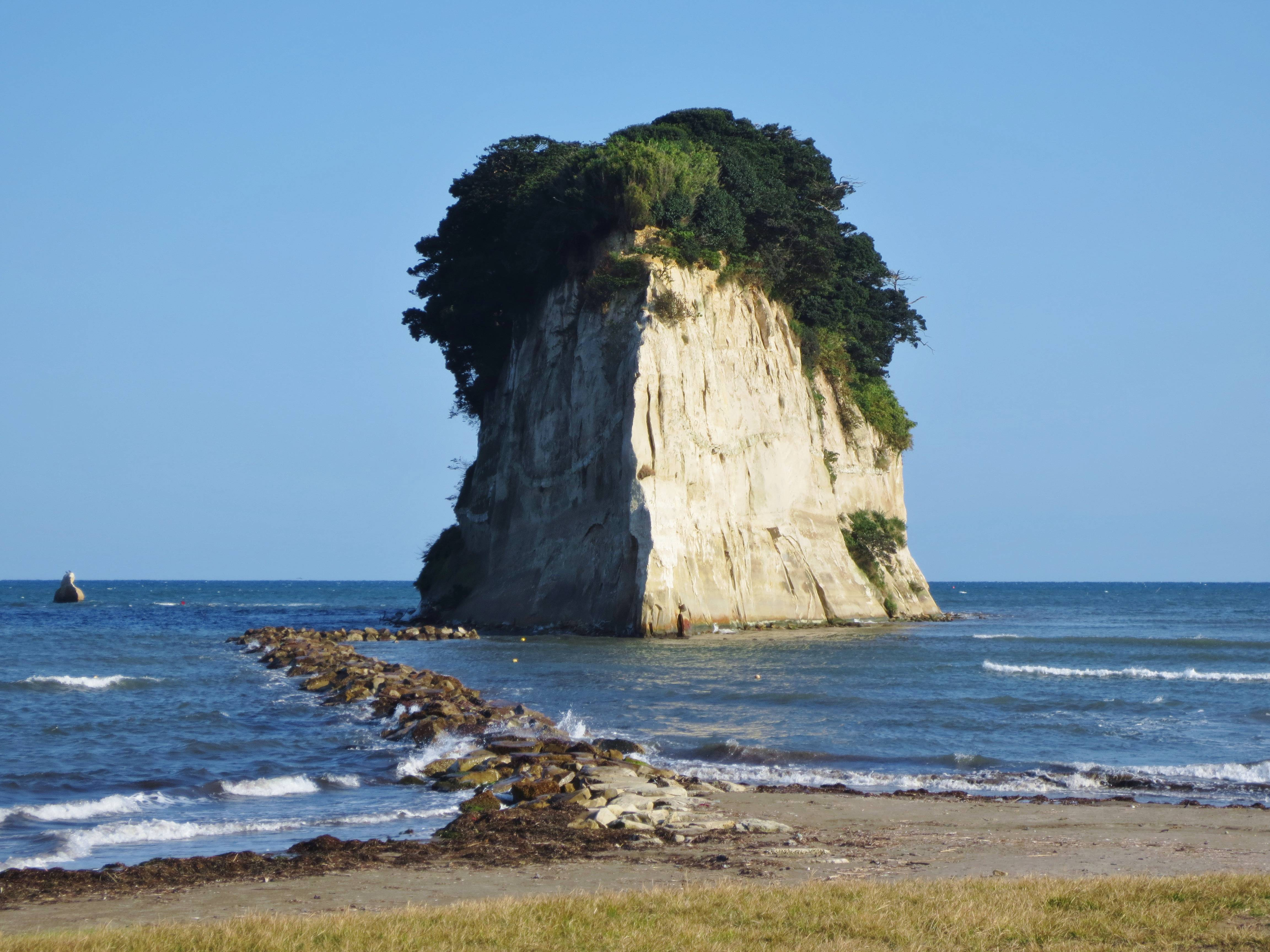 Mitsukejima.